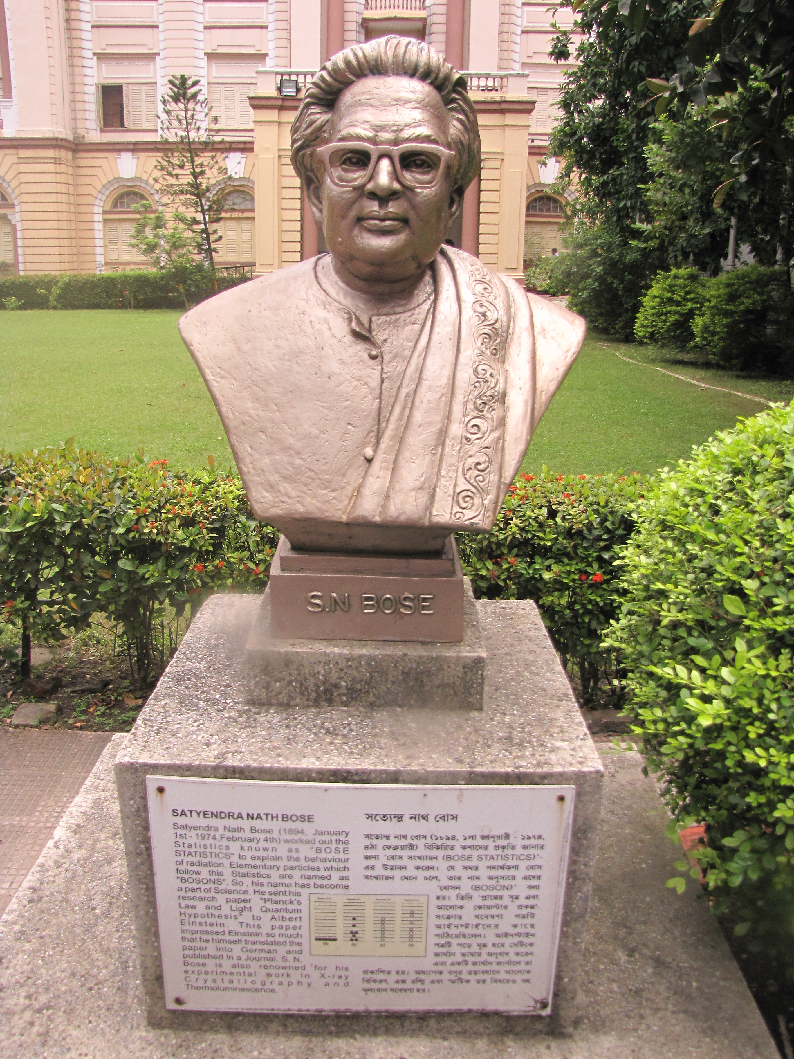 Bust of Satyendra Nath Bose, an Indian physicist, which is placed in the garden of Birla Industrial & Technological Museum.